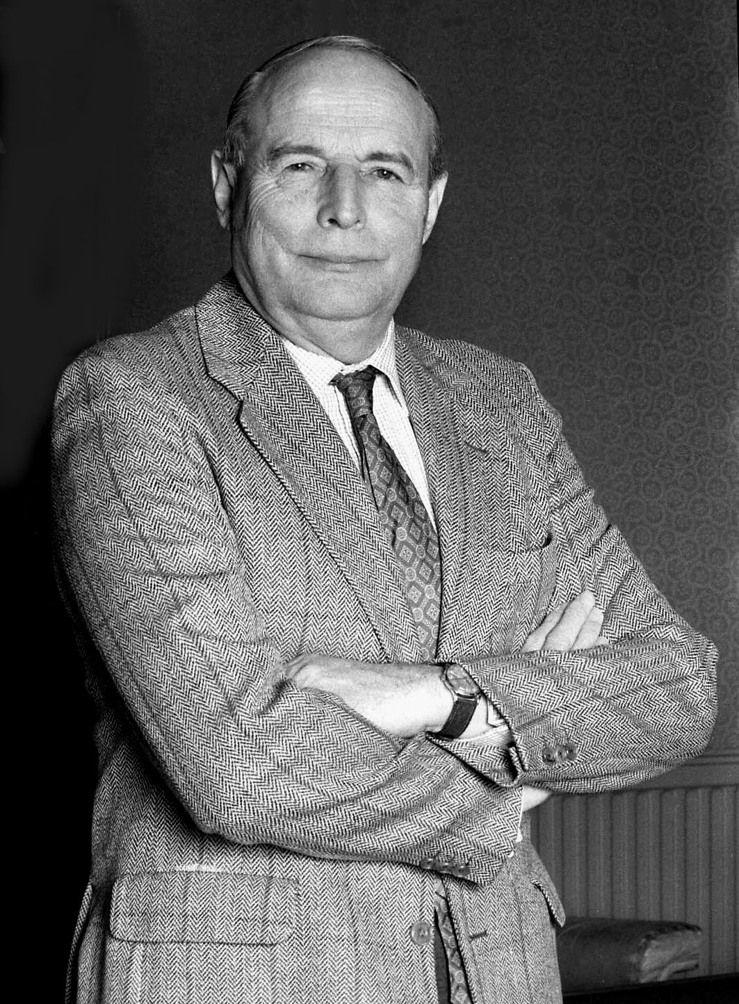 10th Duke of Richmond & Gordon 5th Duke of Lennox